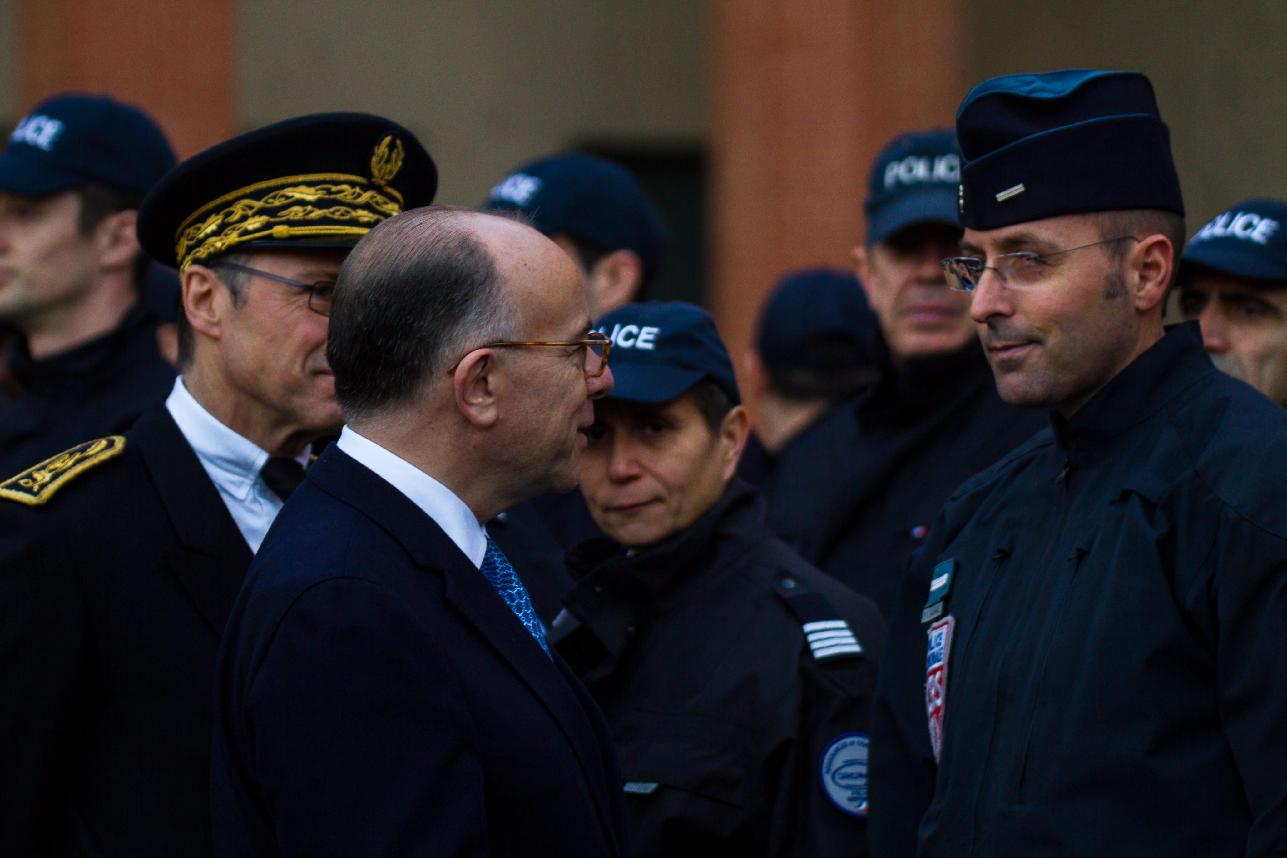 French Interior minister Bernard Cazeneuve shakes hands with police members during a visit at a Police station in Toulouse.